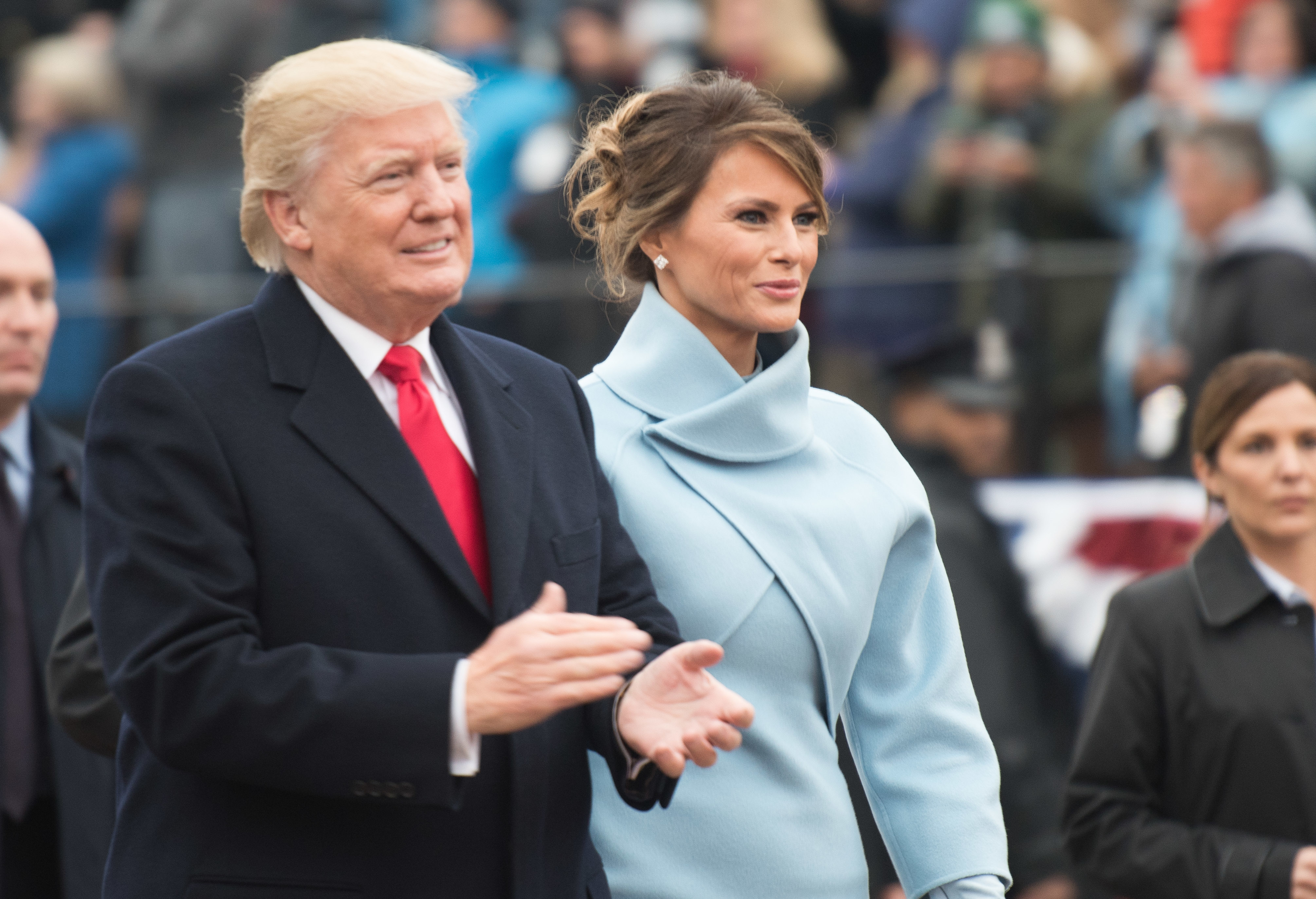 President Trump and the First Lady walk pass the inaugural parade reviewing stand in the 58th Presidential Inaugural parade in Washington D.C., January 20, 2017. U.S. Armed Forces personnel provide ceremonial support to the 58th Presidential Inaugural during the Inaugural period. This support comprises musical units, marching elements, color guards, salute batteries, and honor cordons, which render appropriate ceremonial honors to the Commander-In-Chief. (U.S. Army photo by Pvt. Gabriel Silva)